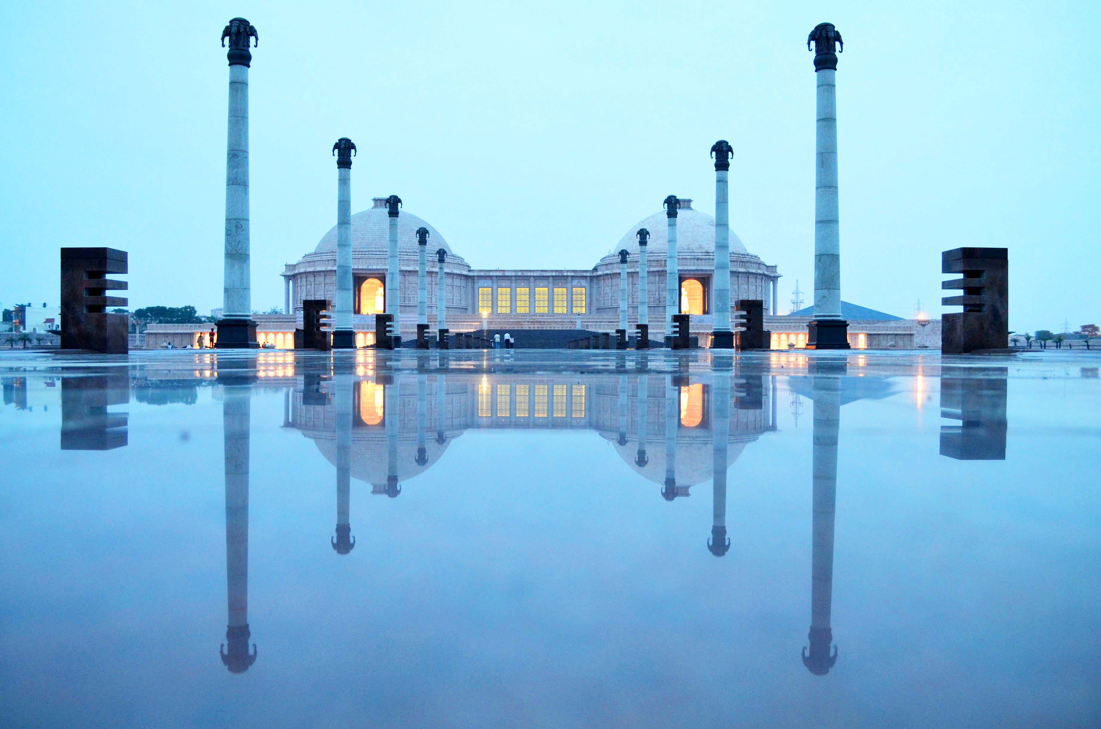 Built by Ms Mayawati The Ex CM of Lucknow in the Name of Dr. Bhim Rao Ambedkar